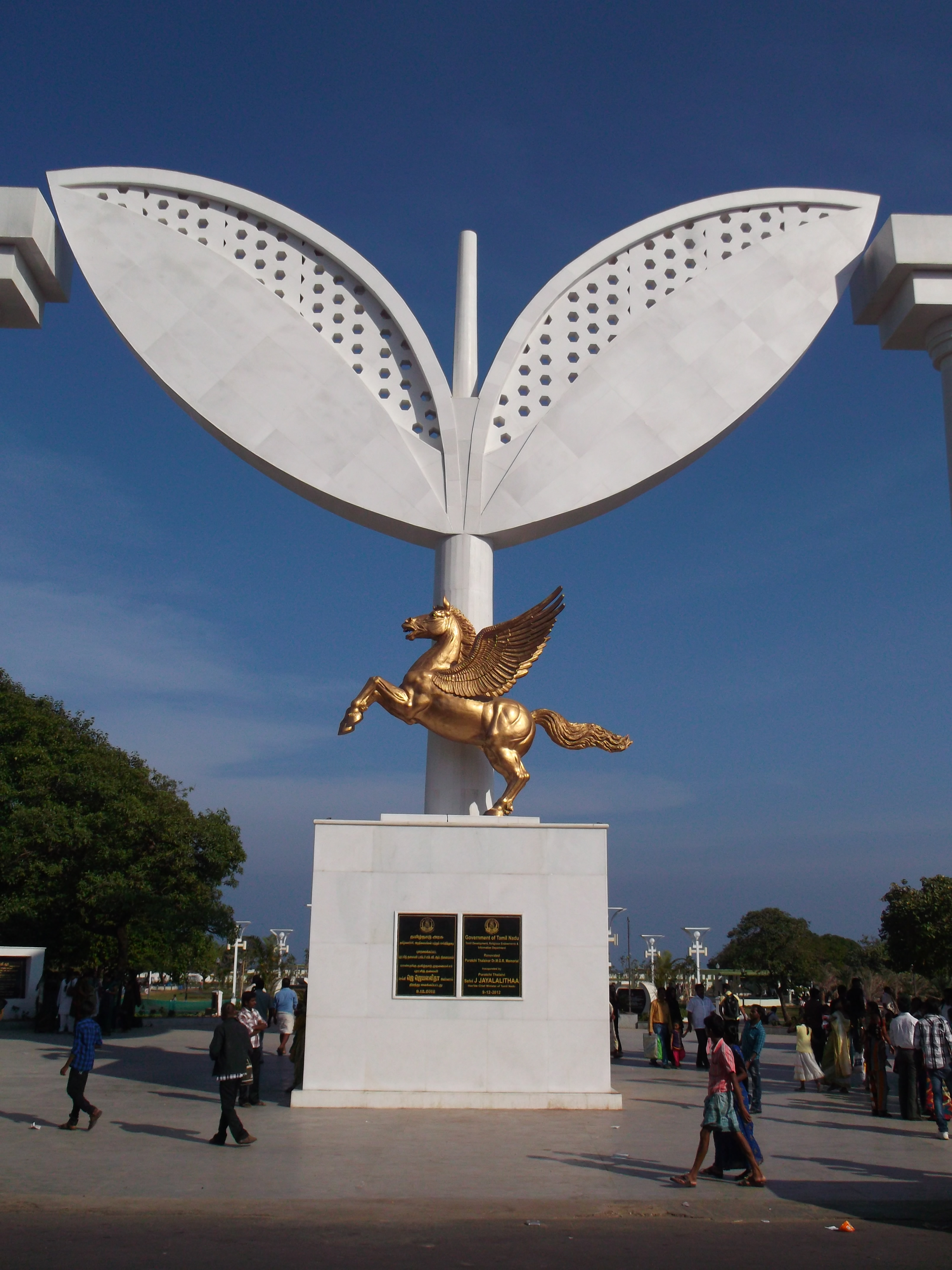 Chennai MGR Memorial, entrance full view, taken on 2-Feb-2013 at around 4.00 pm